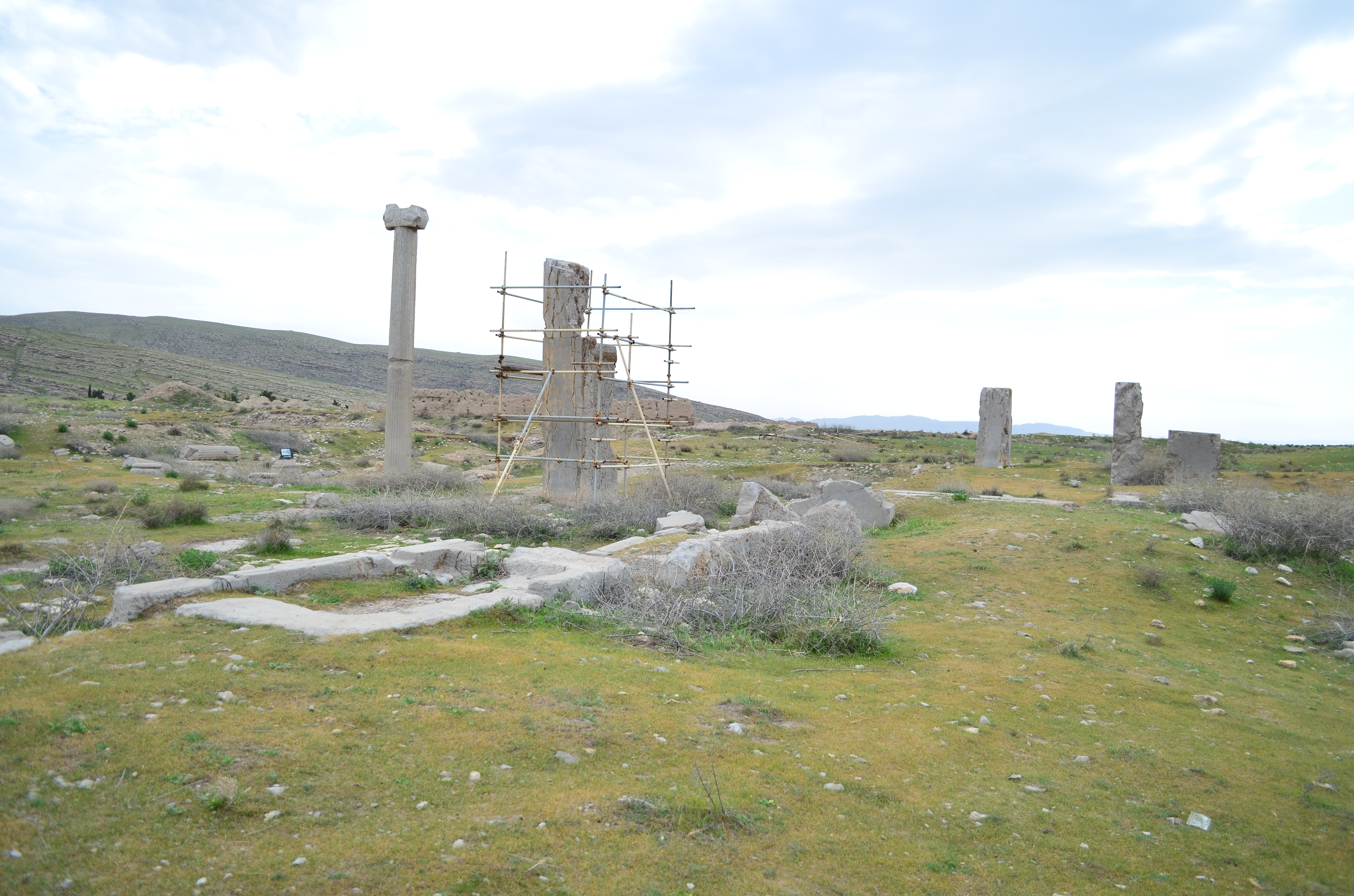 Estakhr